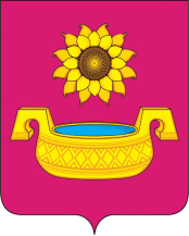 Coat of arms of Novoplatnirovskaya